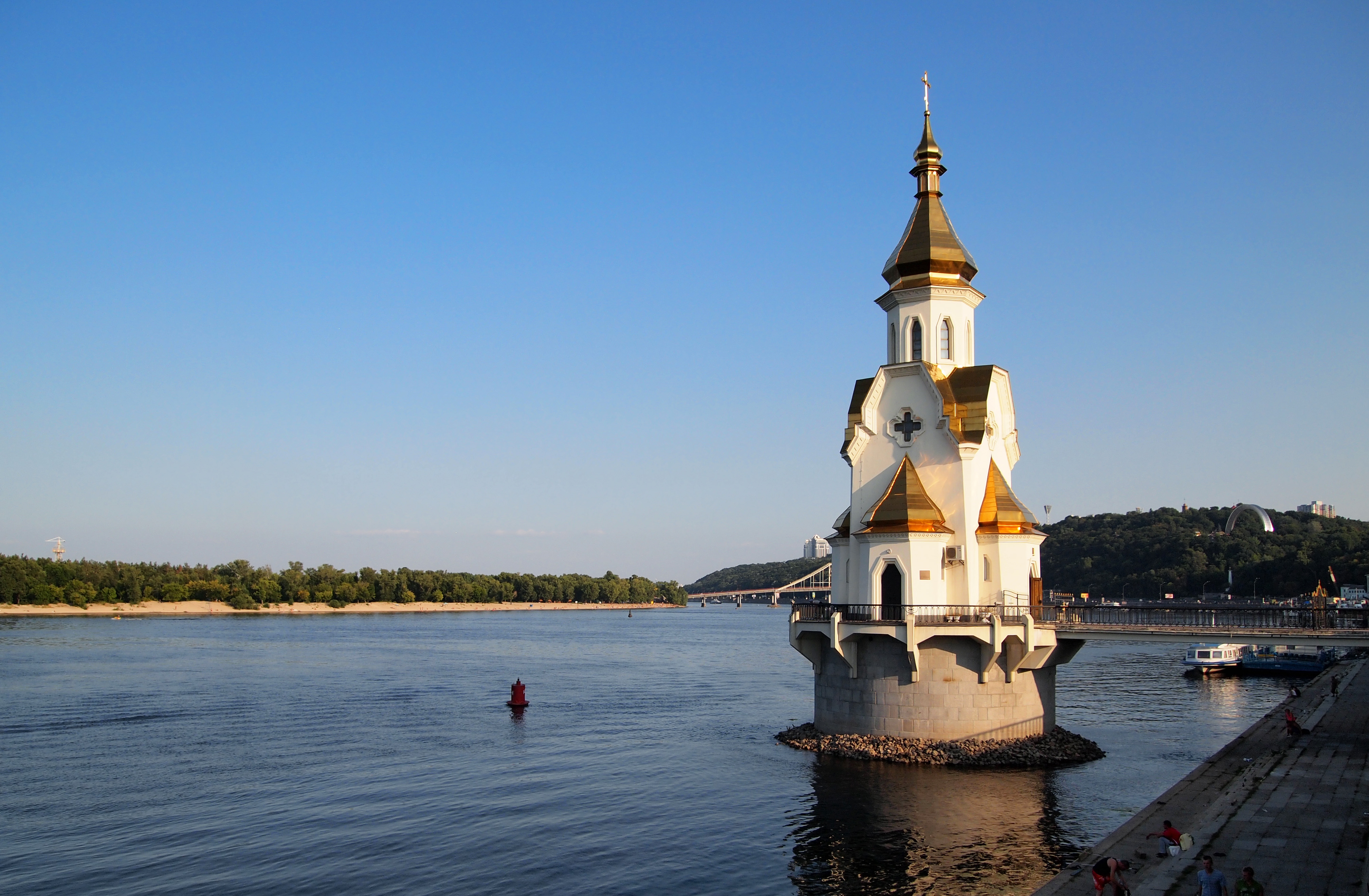 Saint Nicholas Church near the Dnieper river, Kiev. This photograph was taken with an Olympus E-PL1